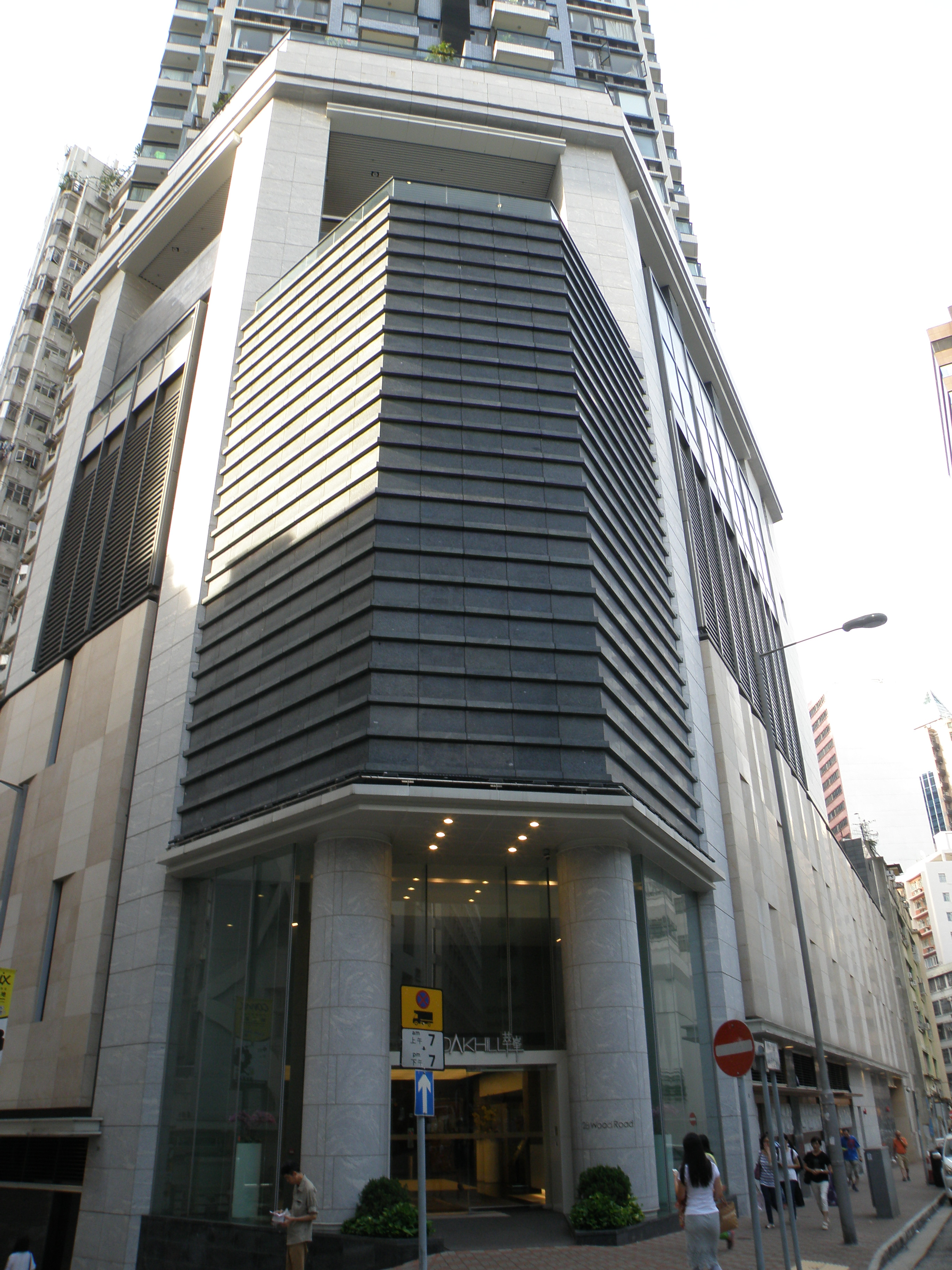 Entrance and exit of The Oakhill, Wan Chai, Hong Kong.